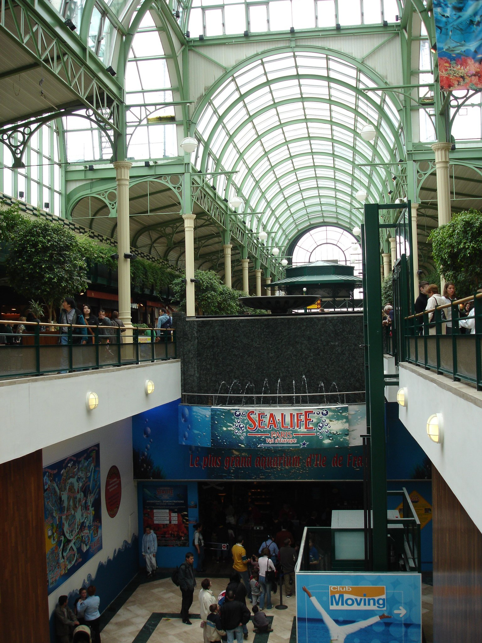 France, Seine-et-Marne, Sea Life Aquarium Paris, Sea Life Aquarium of Paris